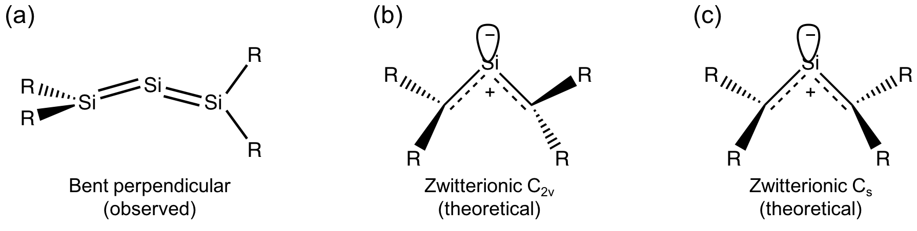 (a) bent perpendicular (observed) (b) zwitterionic (C2v) (c) zwitterionic (Cs)